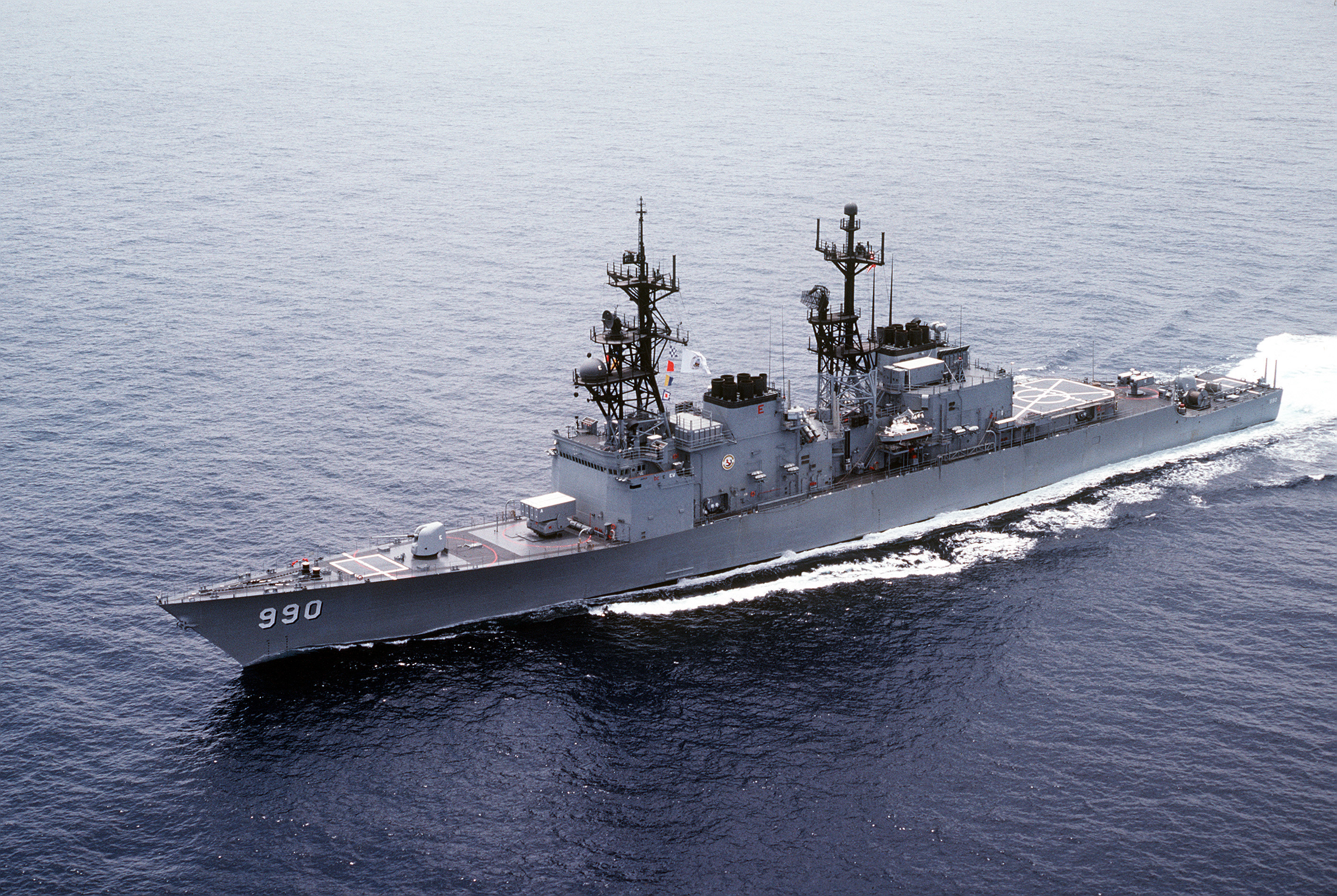 The U.S. Navy destroyer USS Ingersoll (DD-990) underway off Southern California (USA) on 13 May 1982.